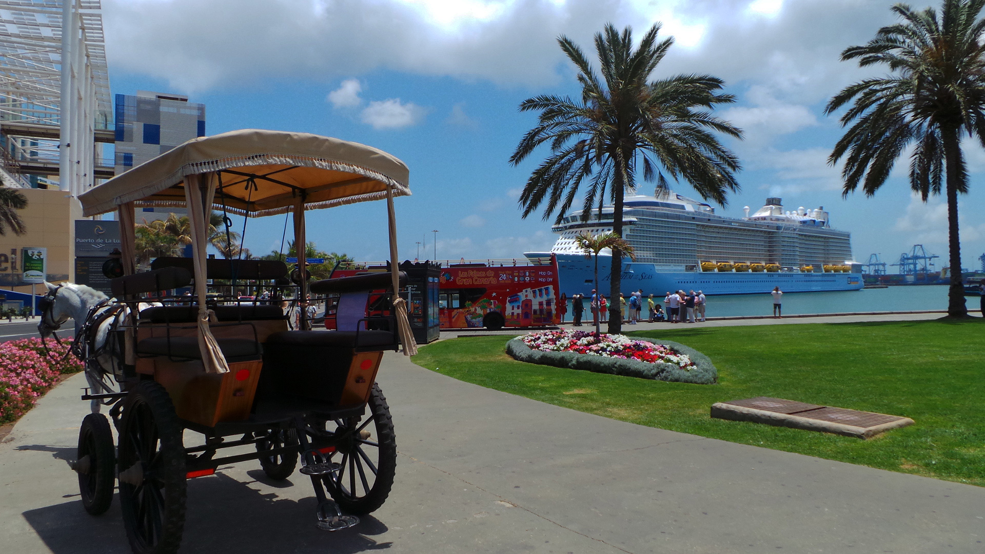 MS Anthem of the Seas docked at the Santa Catalina cruise terminal in Las Palmas, Canary Islands on 27 May 2015.